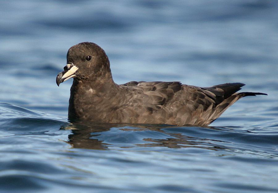 Westland Petrel (Procellaria westlandica) off Kaikoura